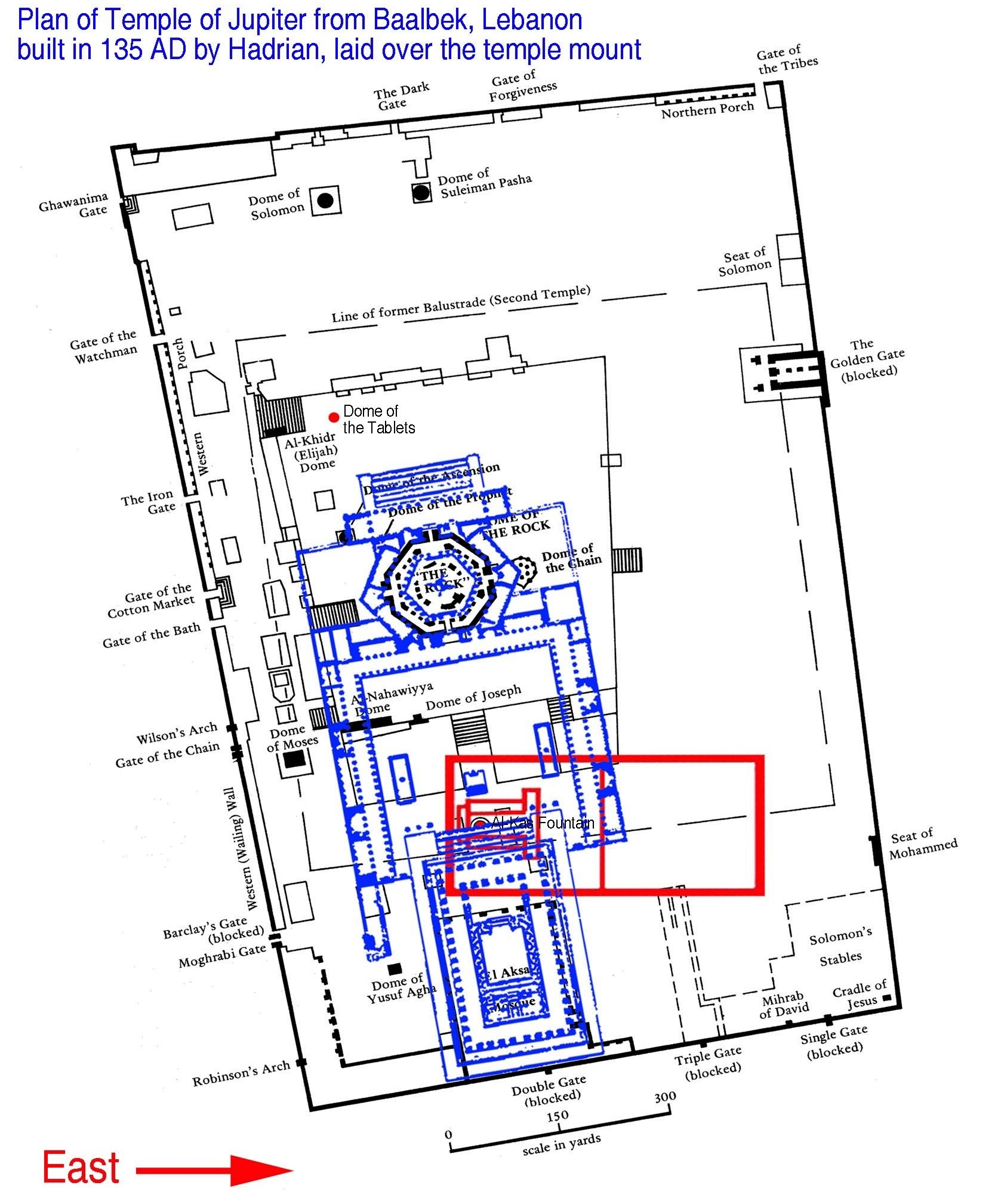 Tuvia_Sagiv, Temple Mount in Jerusalem with the Hadrian temple of Jupiter in Baalbek in Lebanon overlaid.jpg